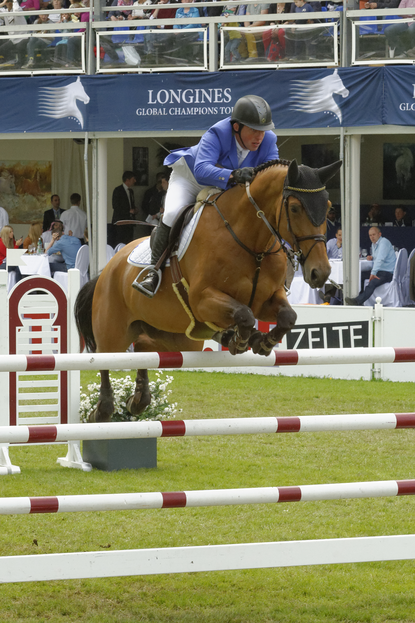 Internationales Pfingstturnier Wiesbaden 2013 The making of this document was supported by the Community-Budget of Wikimedia Germany.